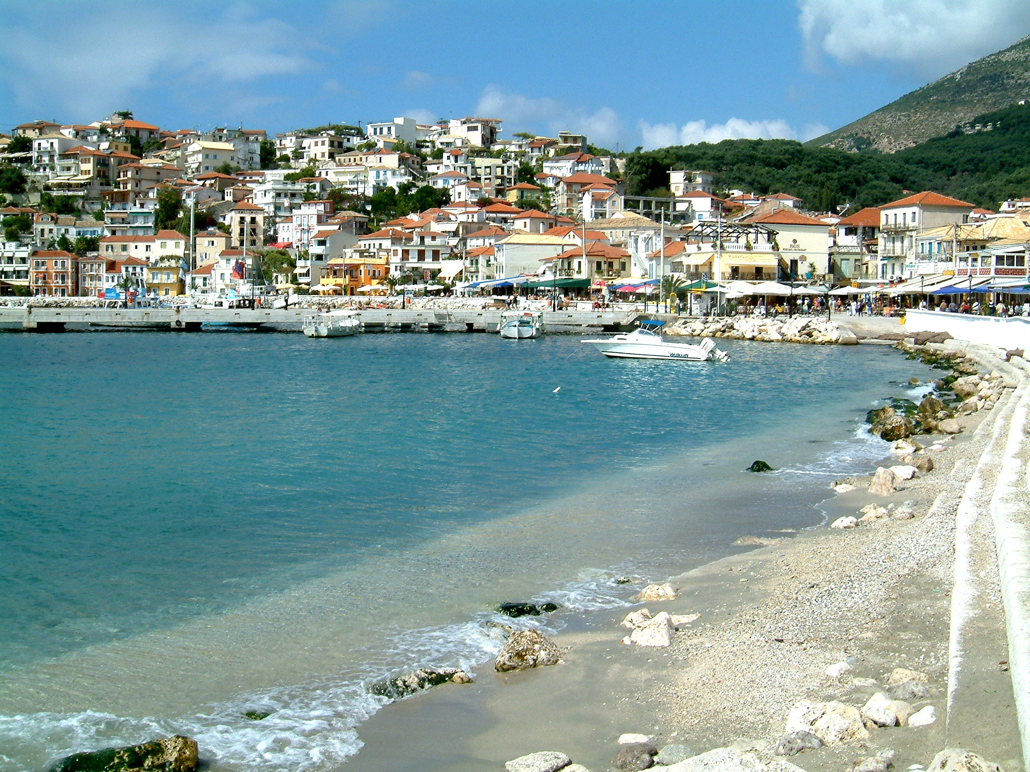 Greece West Coast Parga 1